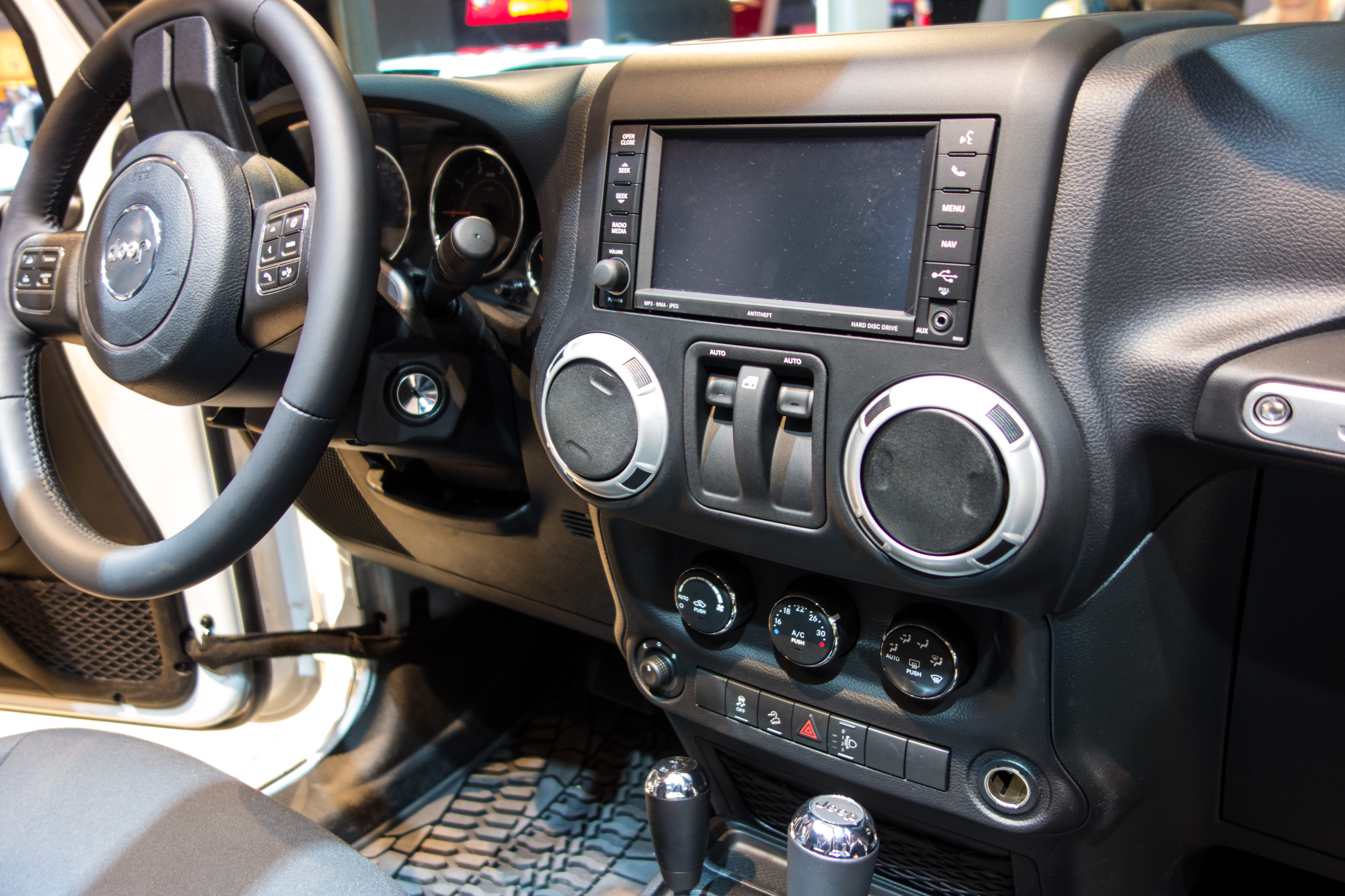 Mondial De L'automobile Paris 2012 | Paris Motor Show 2012